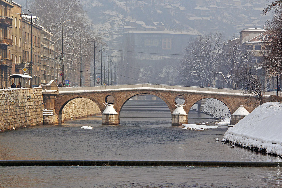 Latin Bridge in Sarajevo, Bosnia and Herzegovina